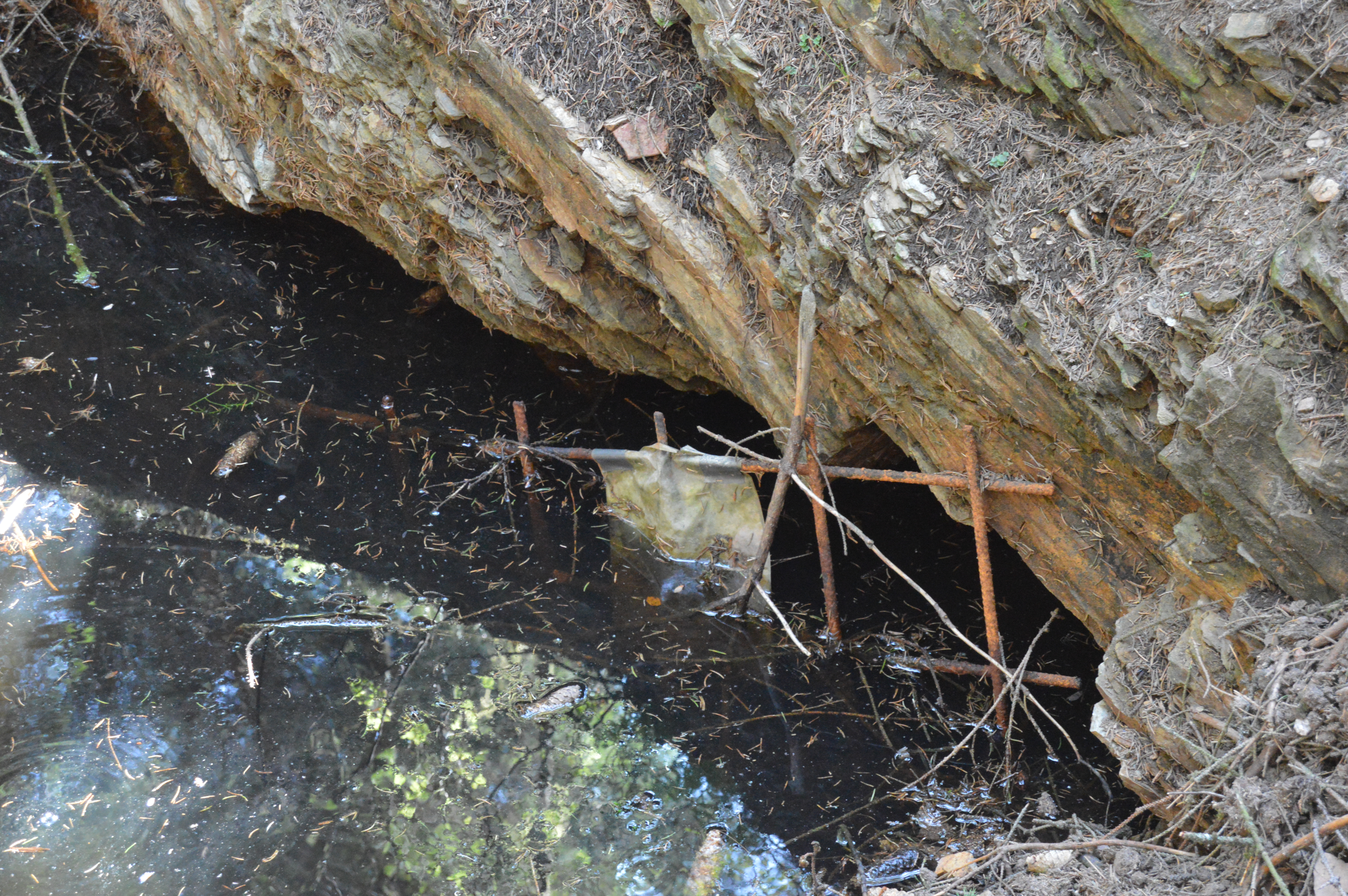 The Trou des Massotais ("Leprechaun Hole"), on the PLteau des Tailles in Belgium, an old gold mine digged by Celts; entry of the gallery